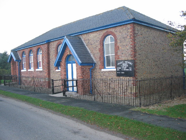 Woldgate Methodist Church, Haisthorpe in the East Riding of Yorkshire, England.This small church is set back from the A614 on a minor road.